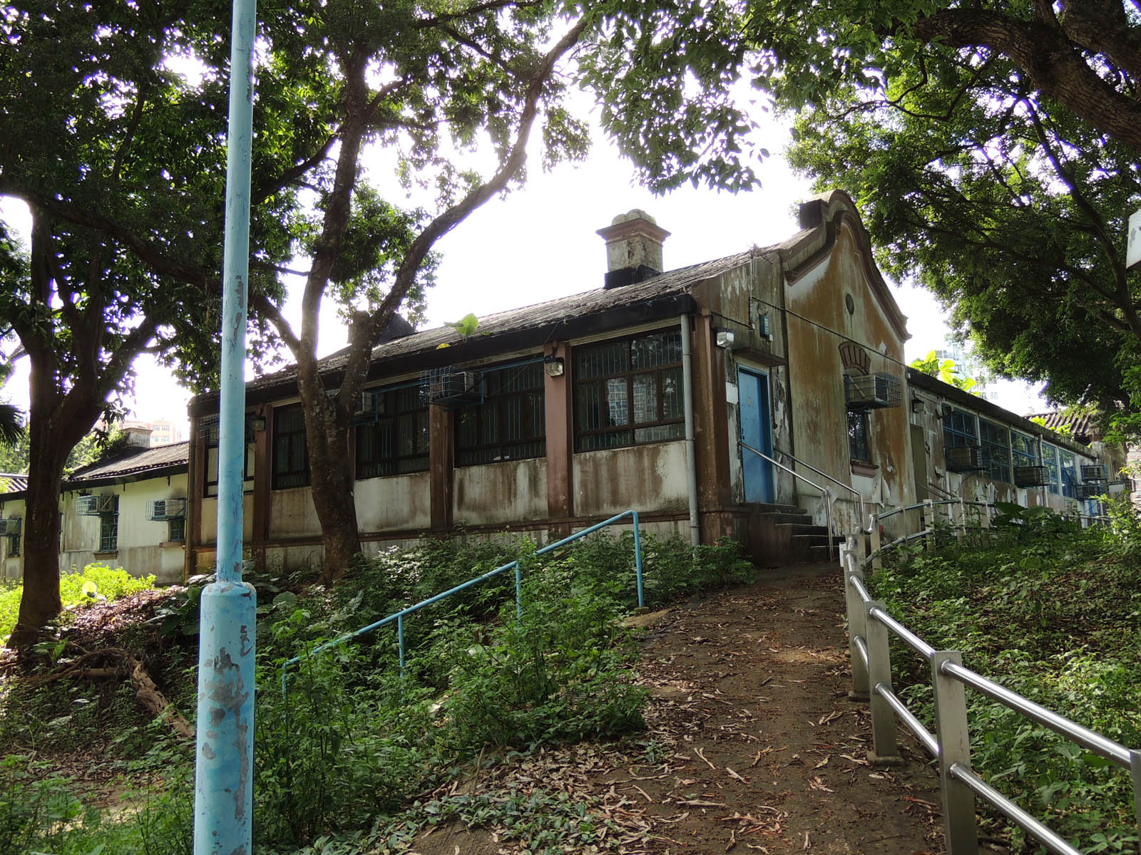 Old Tai Po Police Station